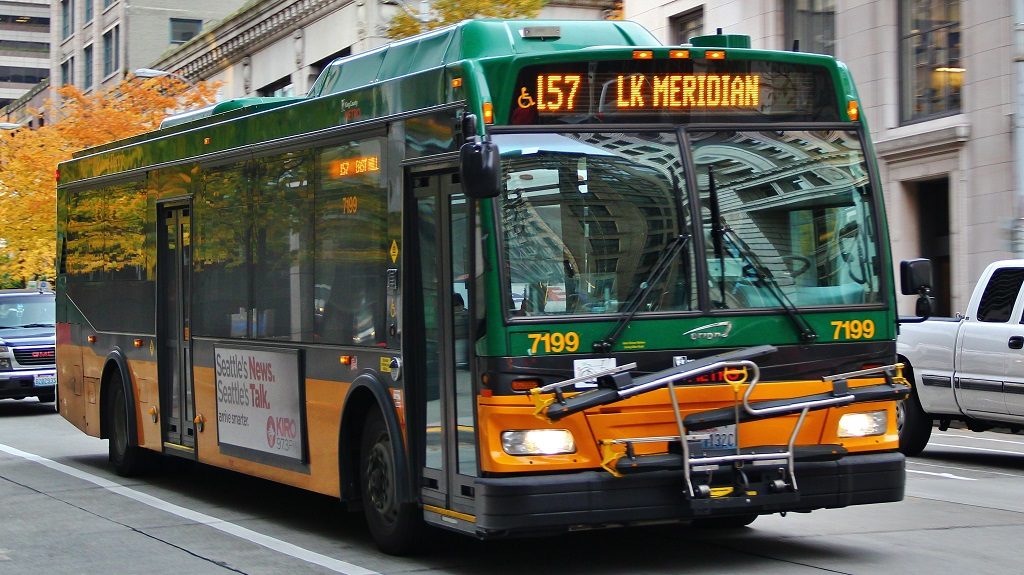 King County Metro's last delivered Orion VII (fleet number 7199) on Second Avenue in Downtown Seattle